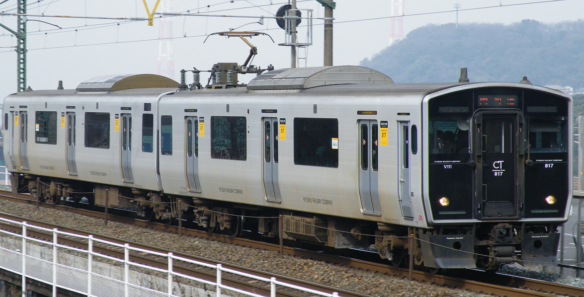 JR Kyushu 817-1000 series EMU passing through Nishi-Yahata Station, Kitakyushu city, Japan